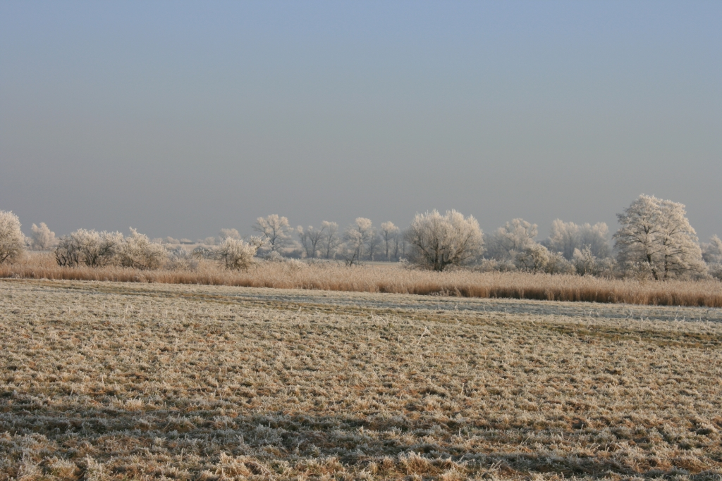 Havelländisches Luch by Senzke in Brandenburg, Germany